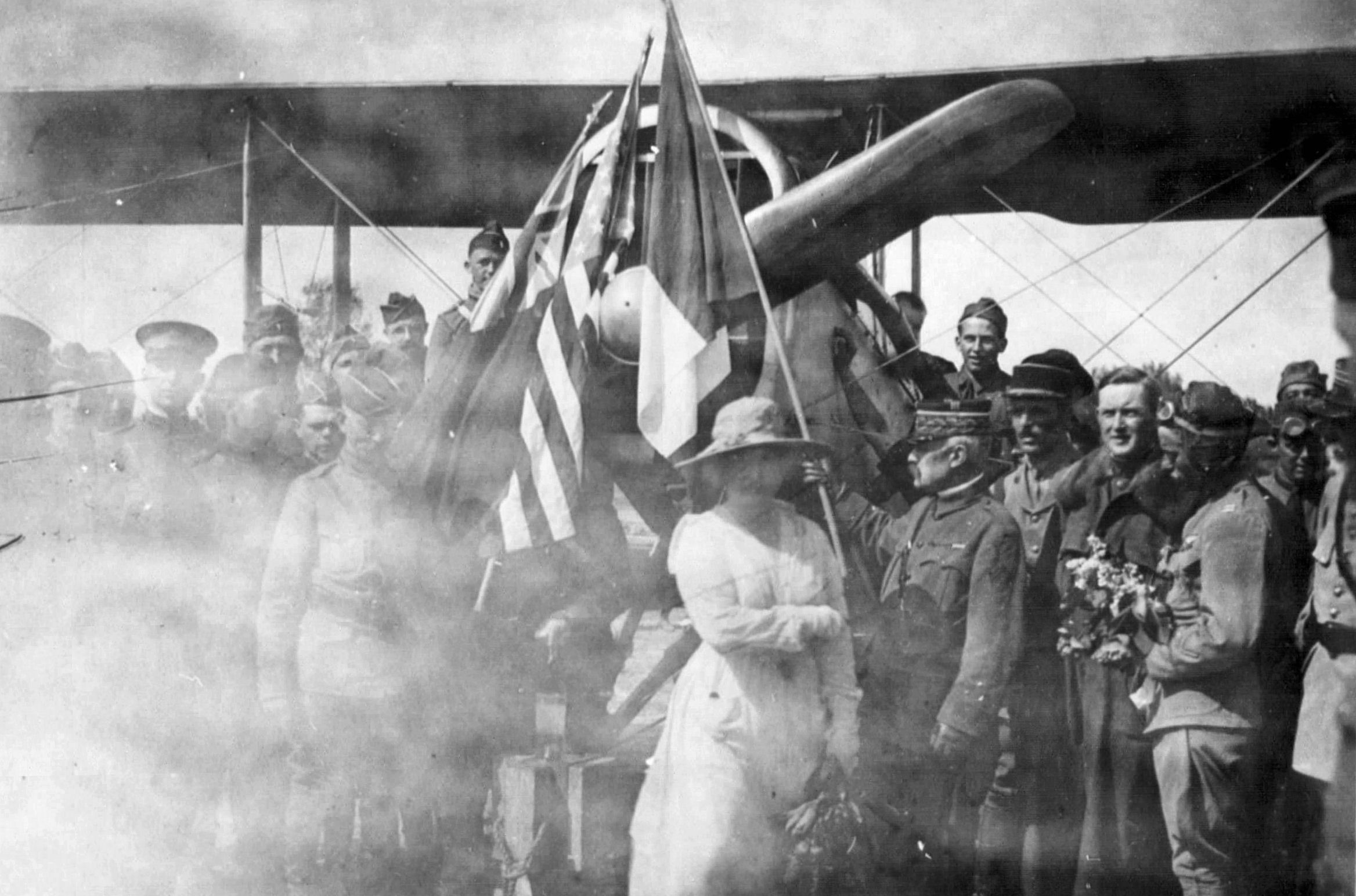 Romorantin Aerodrome - 1st DH-4 16 May 1918